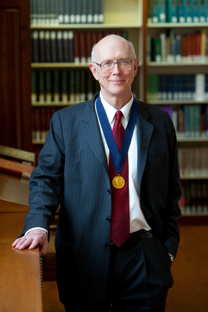 Photograph of chemist George M. Whitesides, with the Othmer Gold Medal, awarded 8 April 2010, at the Chemical Heritage Foundation.